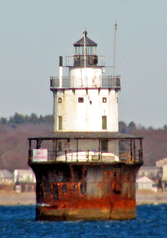 Butler Flats Light, off New Bedford, MA, USA round cylindrical brick tower / a sparkplug tower